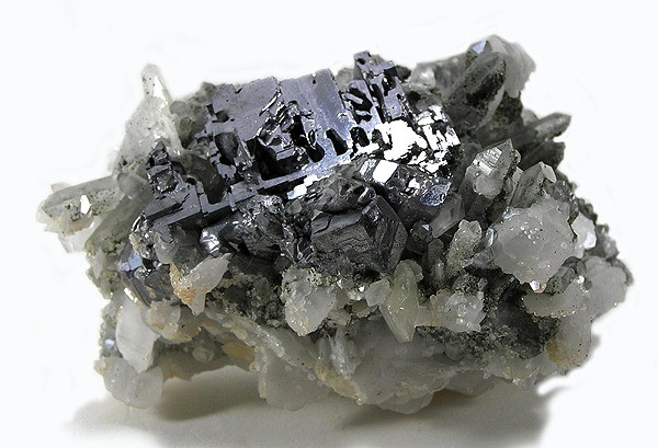 Galena Locality: Dal'negorsk (Dalnegorsk; Tetyukhe; Tjetjuche; Tetjuche), Primorskiy Kray, Far-Eastern Region, Russia (Locality at ) Check out the AMAZING architectural growth pattern of this intricately hoppered galena crystal from Dalnegorsk! One wonders just what conditions in the pocket caused this ornate modification. The crystal sits on a bed of quartz crystals included by chlorite. The galena measures 5 cm across. 10.0 x 6.0 x 5.6cm